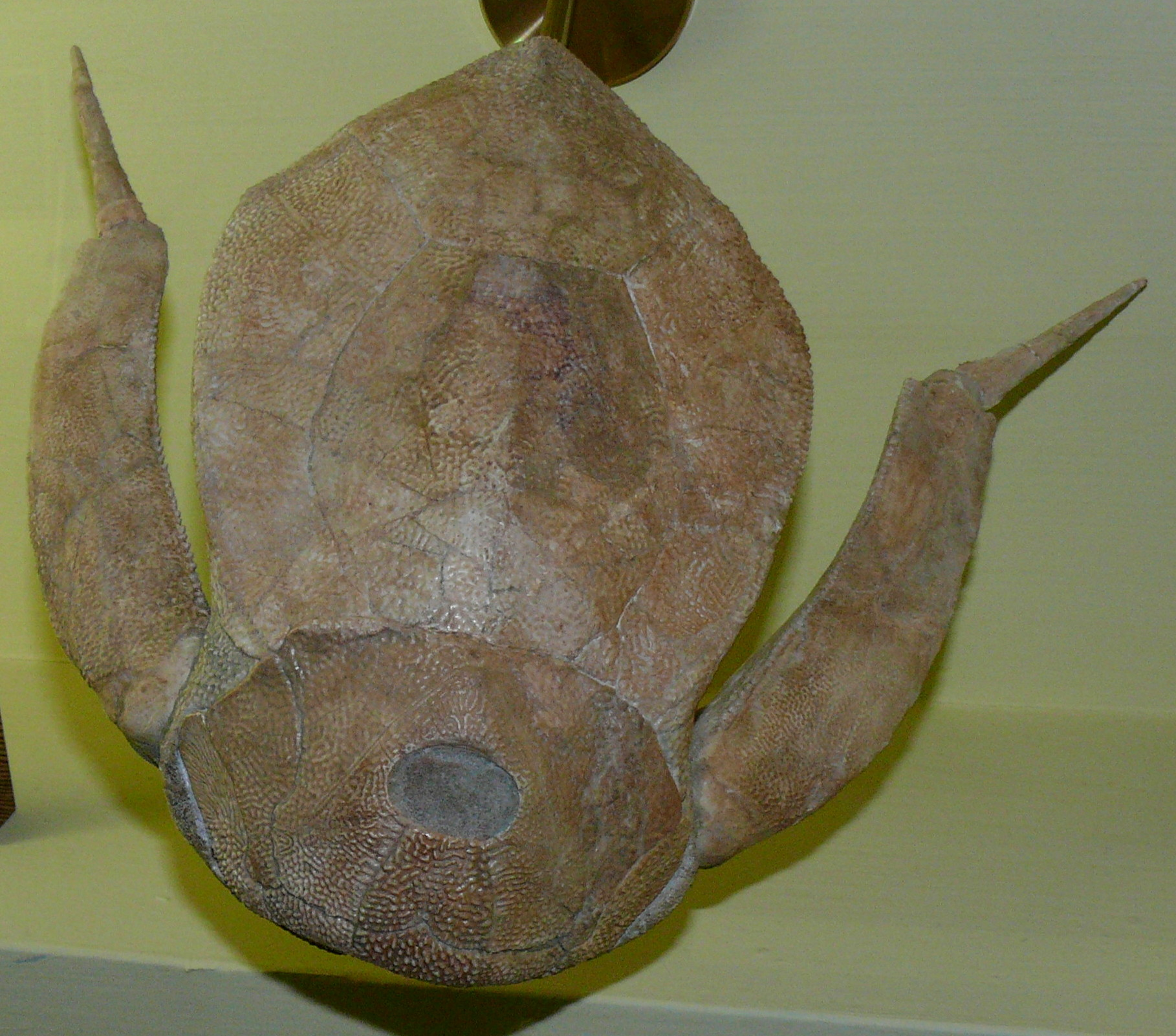 Bothriolepis panderi TRARAQUAIR, Devonian, Northwest-Russia, Nowgorod-Region